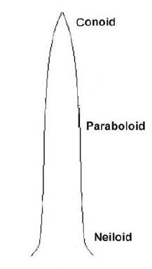 Illustration of the generalized change in trunk shape of a tree with changes in height